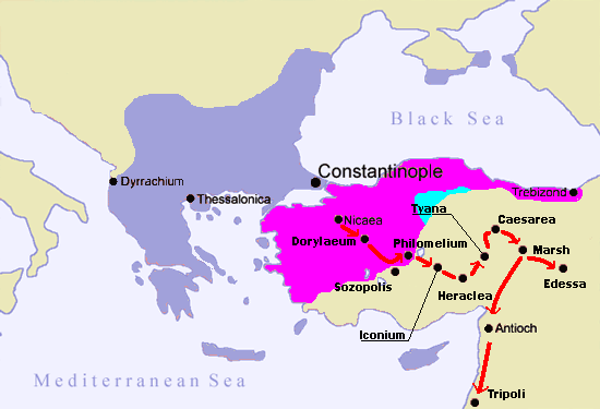 Does exactly what the label says